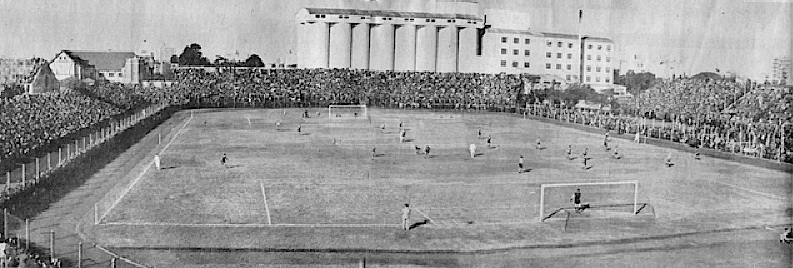 View of the Ferro C. Oeste stadium during a football match. At the background, the grandstand acquired to C.A. Boca Juniors.